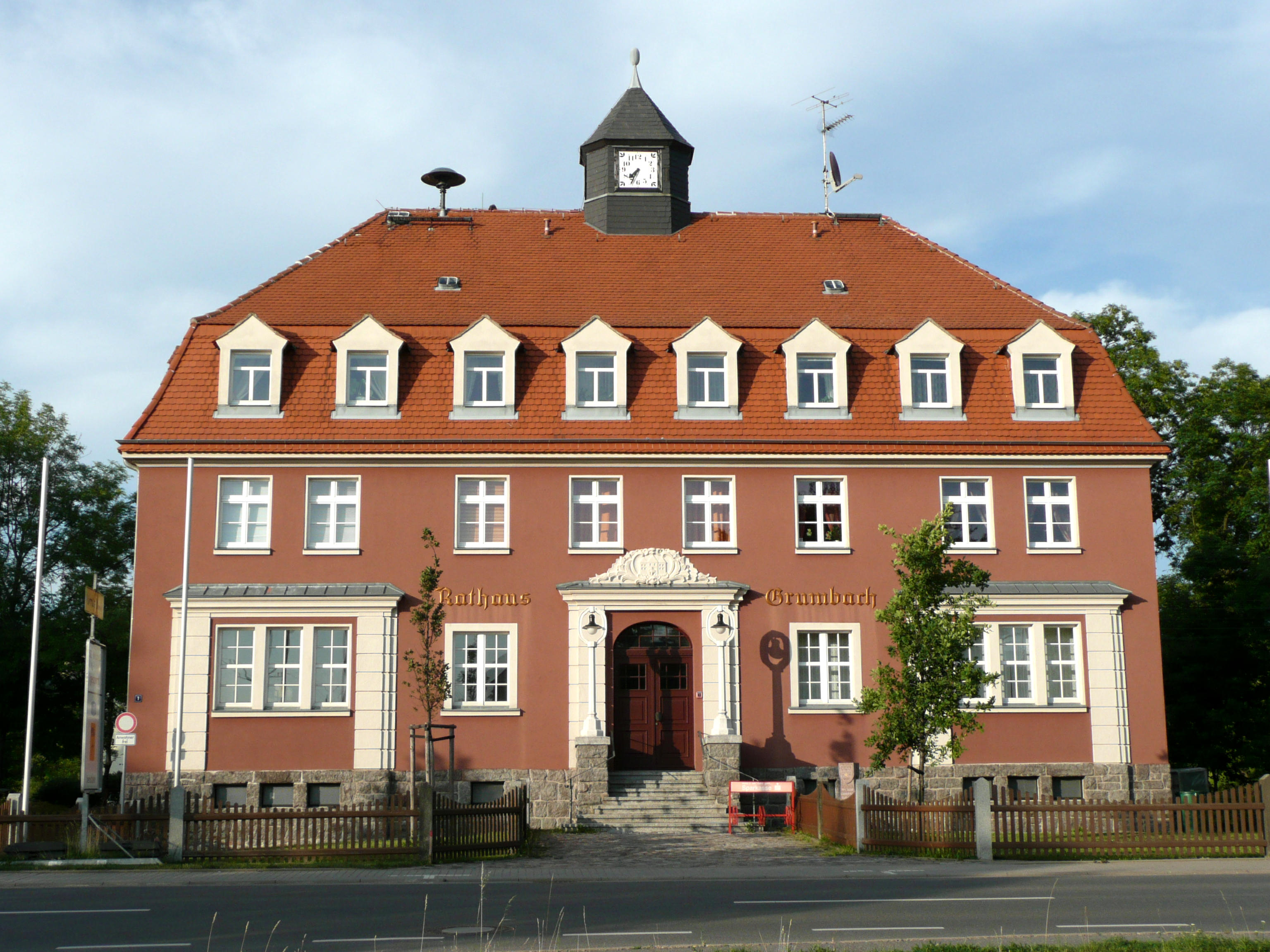 This image shows the town hall in Grumbach near Wilsdruff.